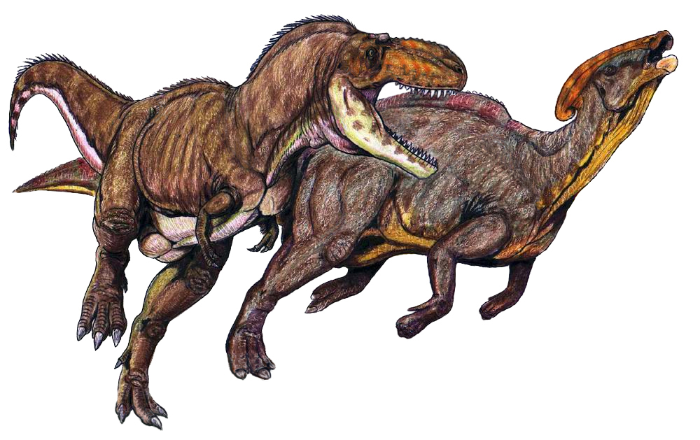 New Mexican "Gorgosaurus sp." (now classified as Teratophoneus) restored attacking a Parasaurolophus cyrtocristatus.